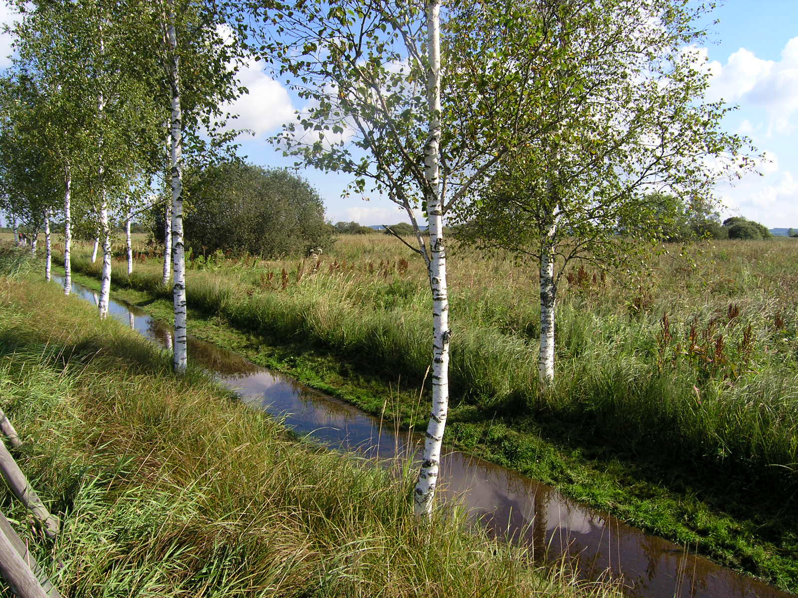 Federsee nature reserve at Bad Buchau, near Biberach an der Riss in South-West Germany